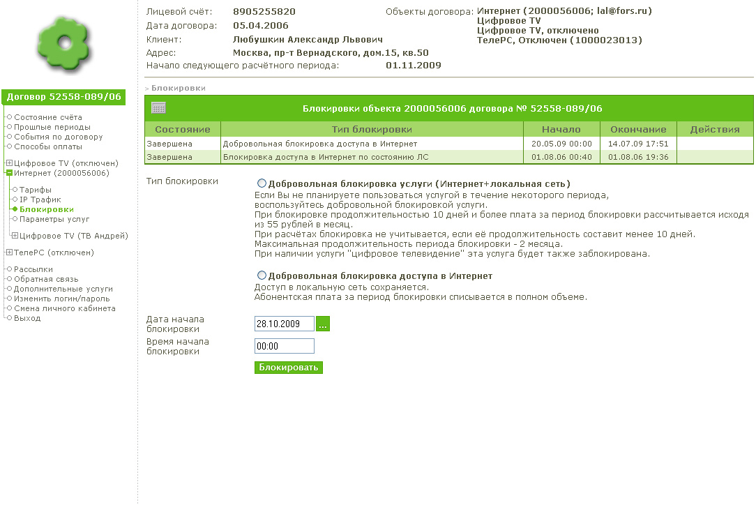 Locks control. Fastcom billing system